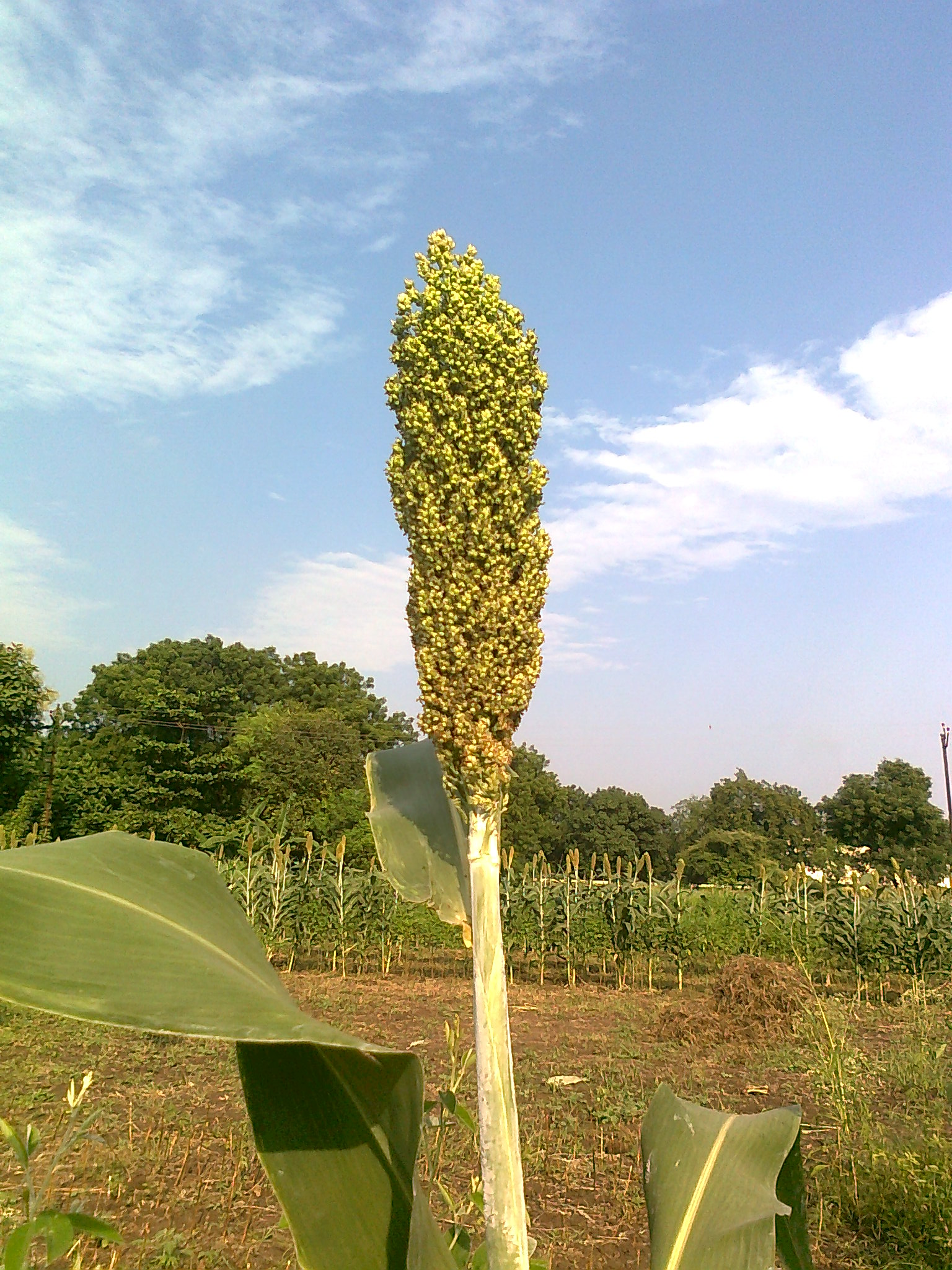 Sorghum crop, Chinawal village, India